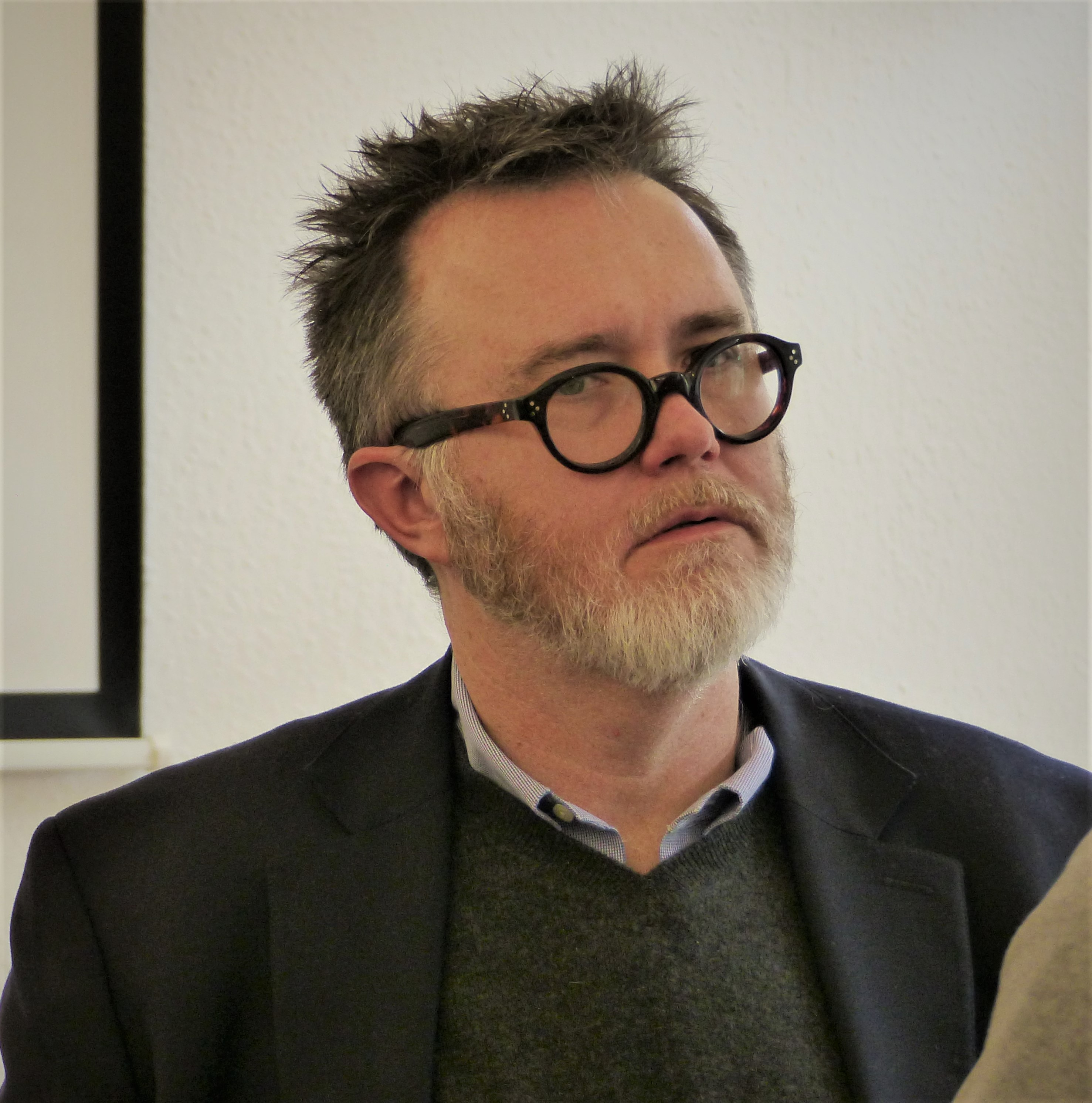 Rod Dreher - The Benedict Optionː A Strategy for Christians in a Post-Christian Nation. 9th of March, 2018, Danube Institute Budapest, Central Europe.